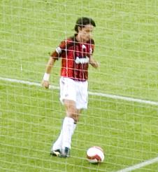 Filippo Inzaghi at AC Milan (game against Siena)